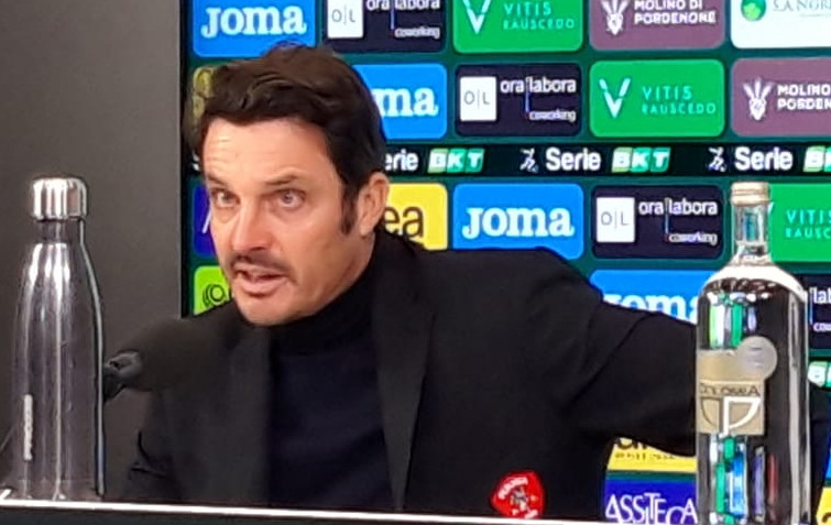 Udine (Italy), "Friuli" Stadium, November 23, 2019. Massimo Oddo, coach of A.C. Perugia Calcio, during the press conference after 0-3 loss versus Pordenone Calcio, Matchday 13 of the Italian League 2019–20 Serie B.